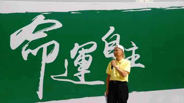 Chairman of the Hong Kong Civic Party from its foundation in 2006 until 2011